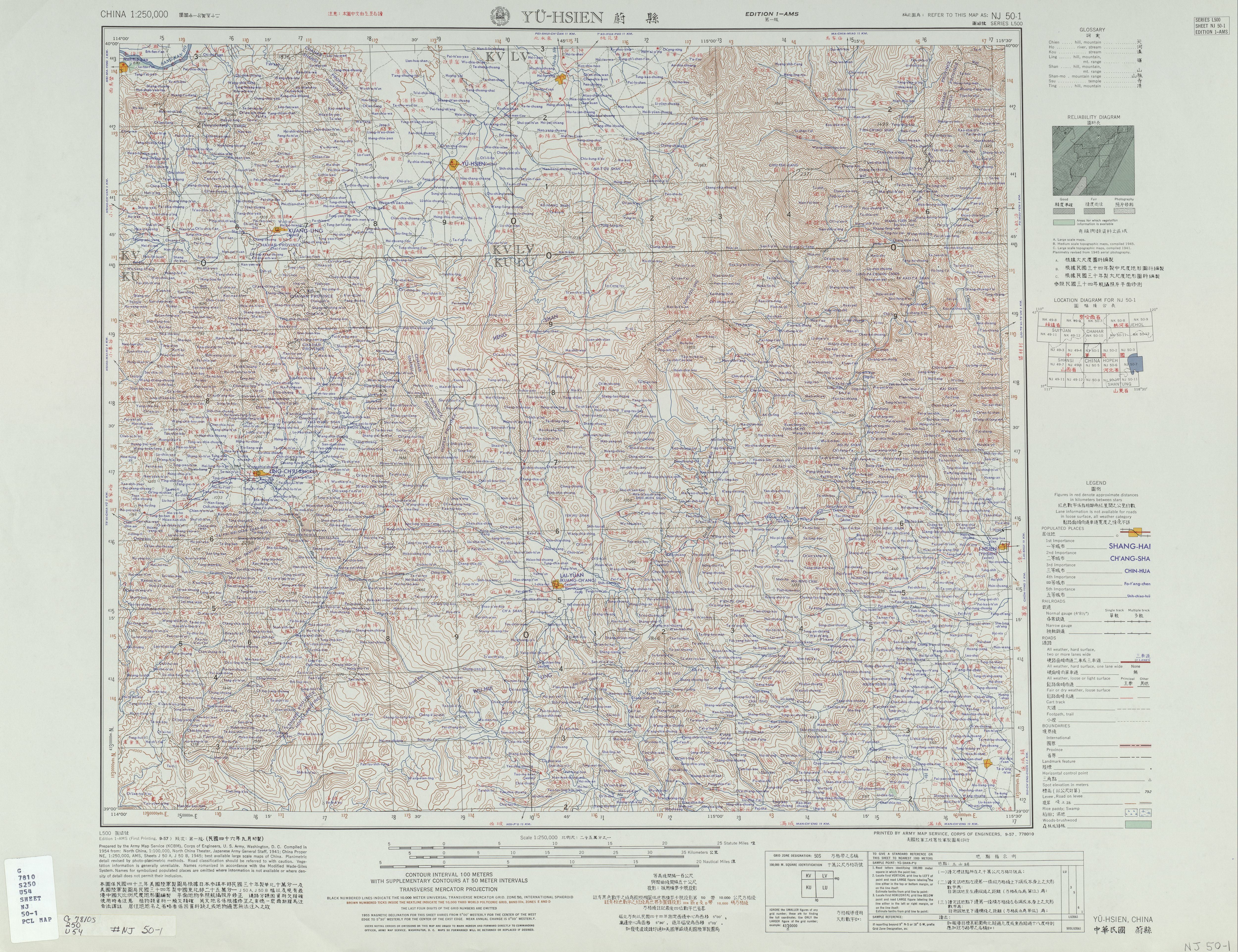 China AMS Topographic Maps